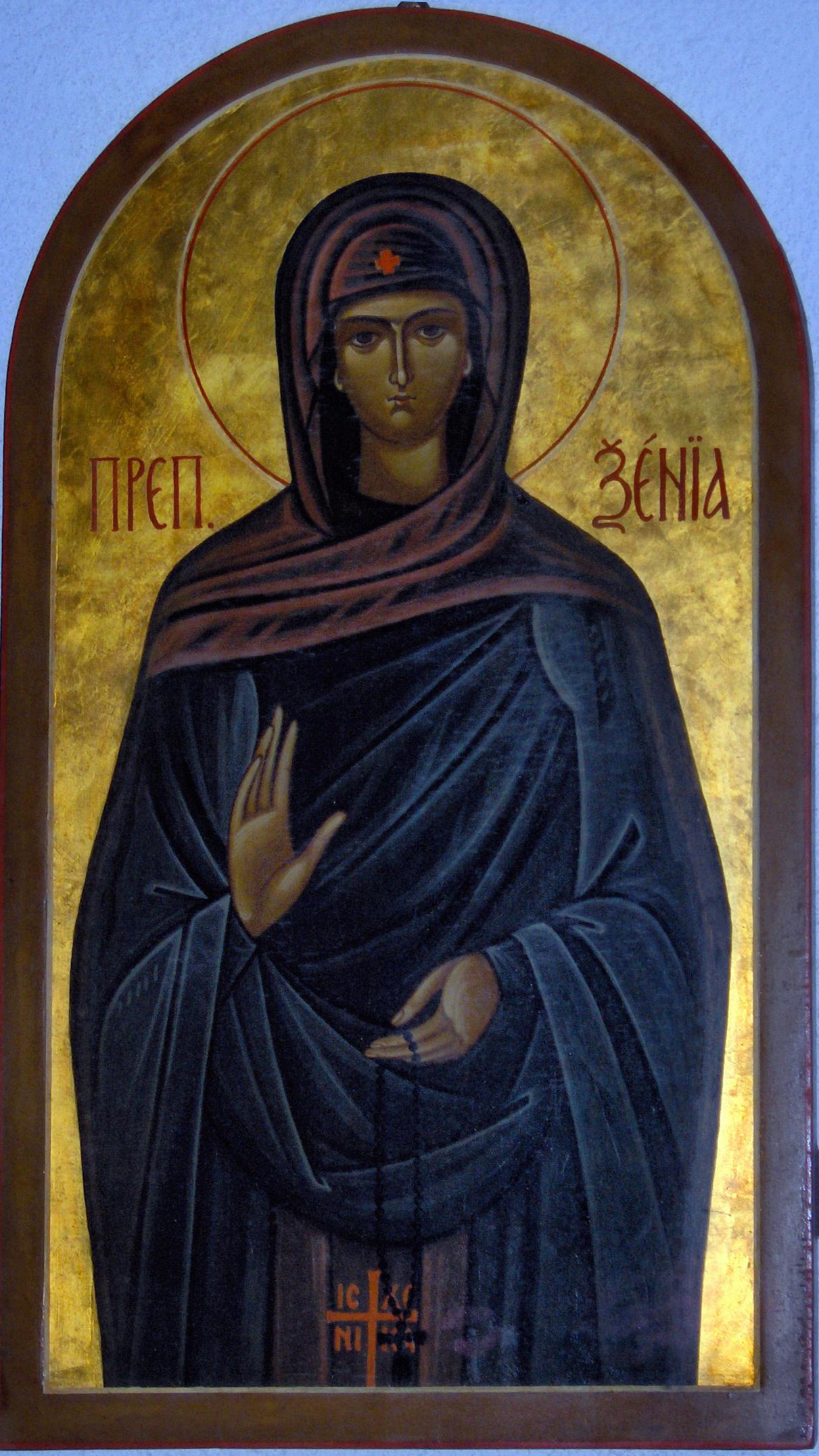 Icon of Saint Xenia of Rome; crypt of the Russian Orthodox Church (Church of Christ the Saviour, St. Catherine and St. Seraph). San Remo, Italy